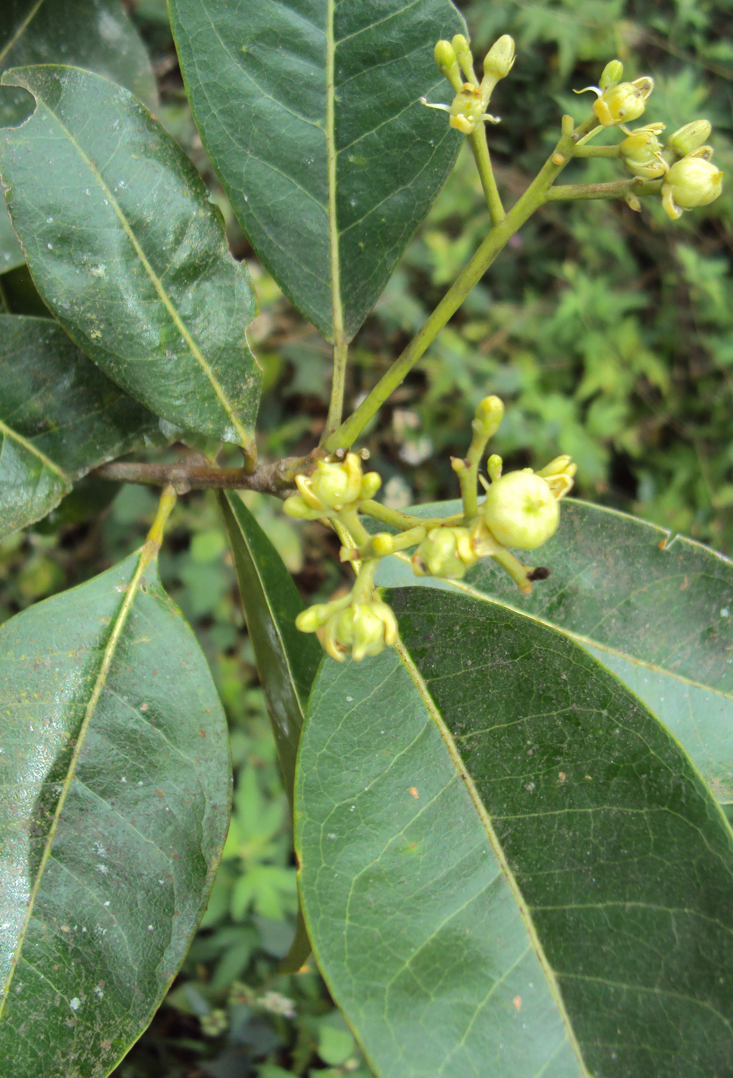 Acronychia pedunculata